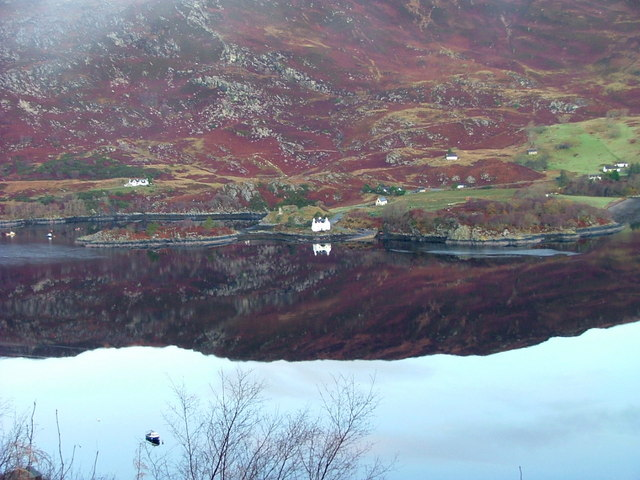 Loch Carron Looking towards Stromemore. The prominent white house on the shore is the old ferry house.